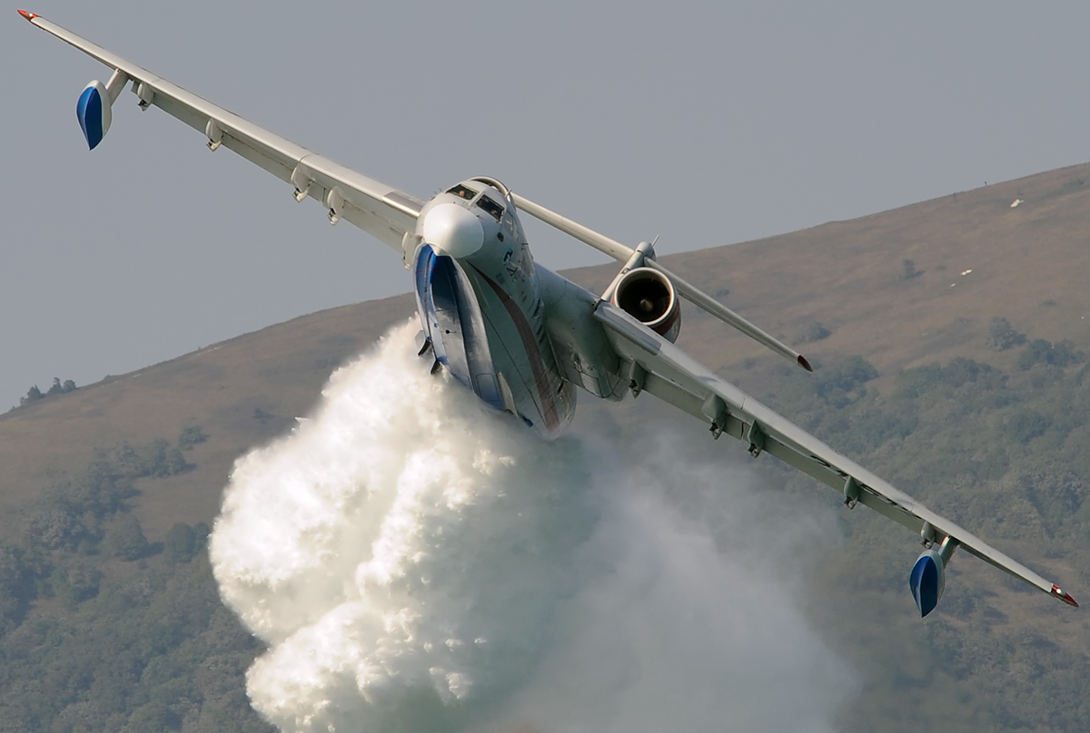 Be-200. 21512 in flight